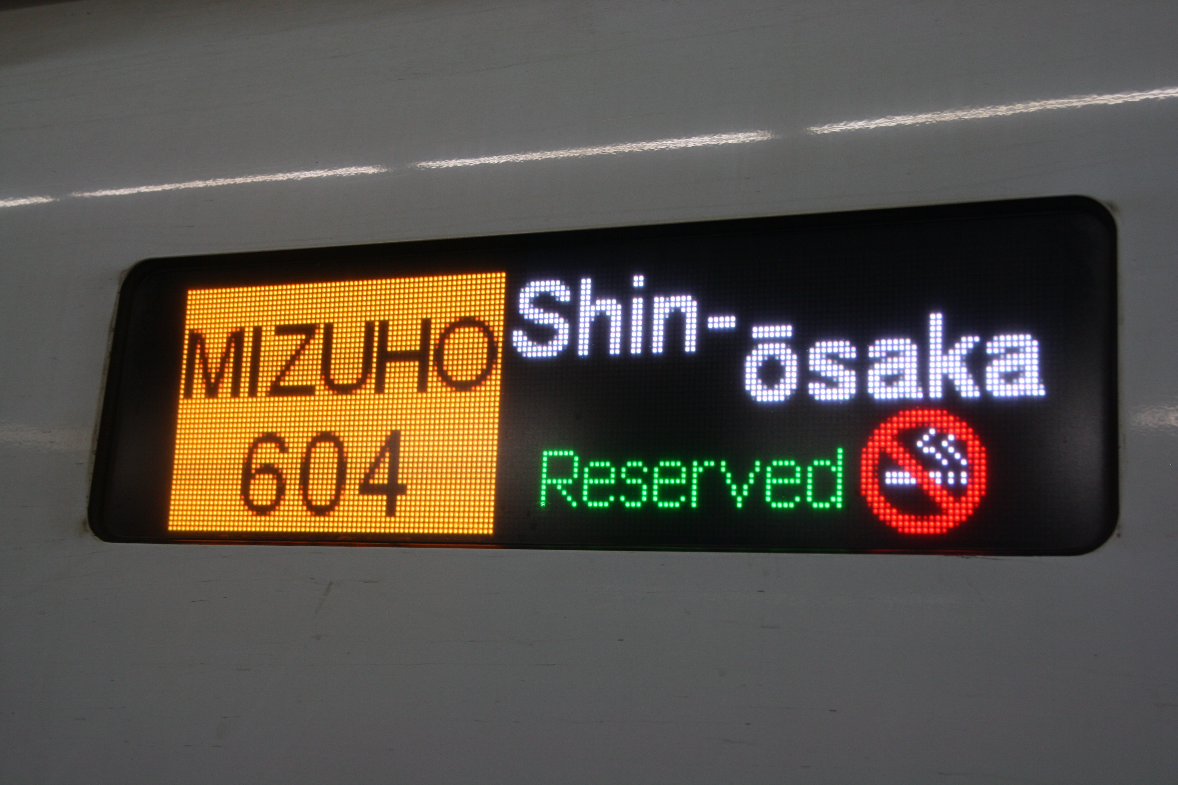 Mizuho service displayed on a Shinkansen N700-7000/8000 series.